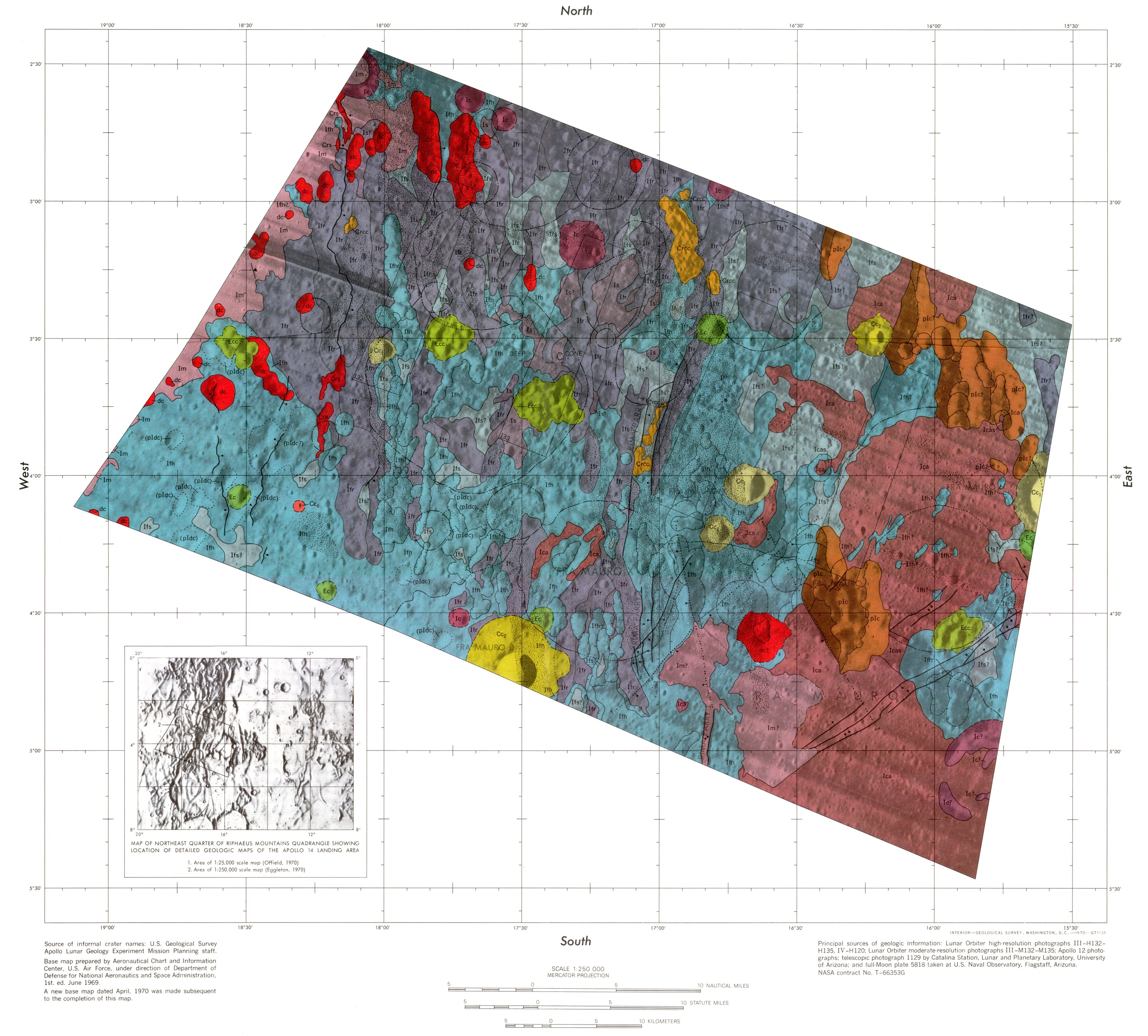 United States Geological Survey map of the Fra Mauro formation region of the Moon. Color key is as follows: Dome and cone material (Crs) Scarp-line ridge material Crater cluster material, ray associated Crater cluster material Crater material Crater material Crater material Smooth-terrain material Crater materials Fra Mauro formation Fra Mauro formation Fra Mauro formation